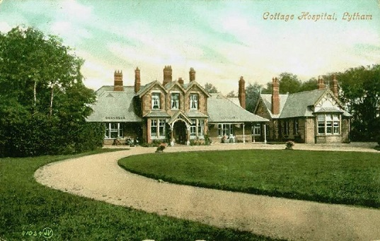 Old postcard of the Cottage Hospital, Lytham